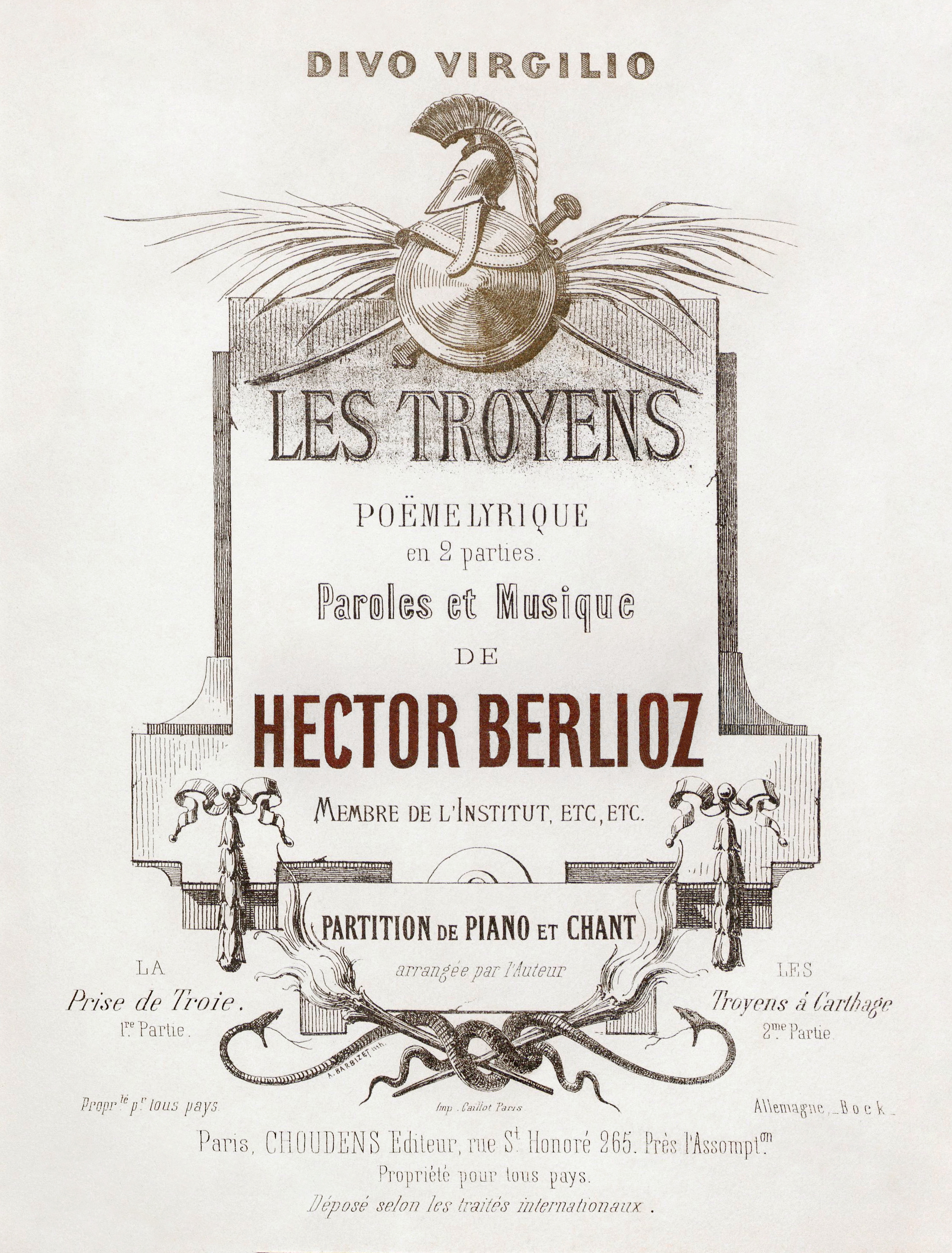 Hector Berlioz, cover to an early, possibly first edition (La Prise de Troie is the second version, first edition, third state according to - but Les Troyens á Carthage is listed as "second version, second issue"), vocal score of Les Troyens. The vocal score was published in two halves, with individual illustrations for each half and a general illustration for the opera as a whole which is exactly the same in both halves. This particular copy was taken from the second half: Berlioz, Hector, 1803-1869. [Troyens à Carthage. Vocal score]. Les Troyens à Carthage : opéra en cinq actes avec un prologue / paroles et musique de Hector Berlioz. [Paris] : Choudens, [1863].